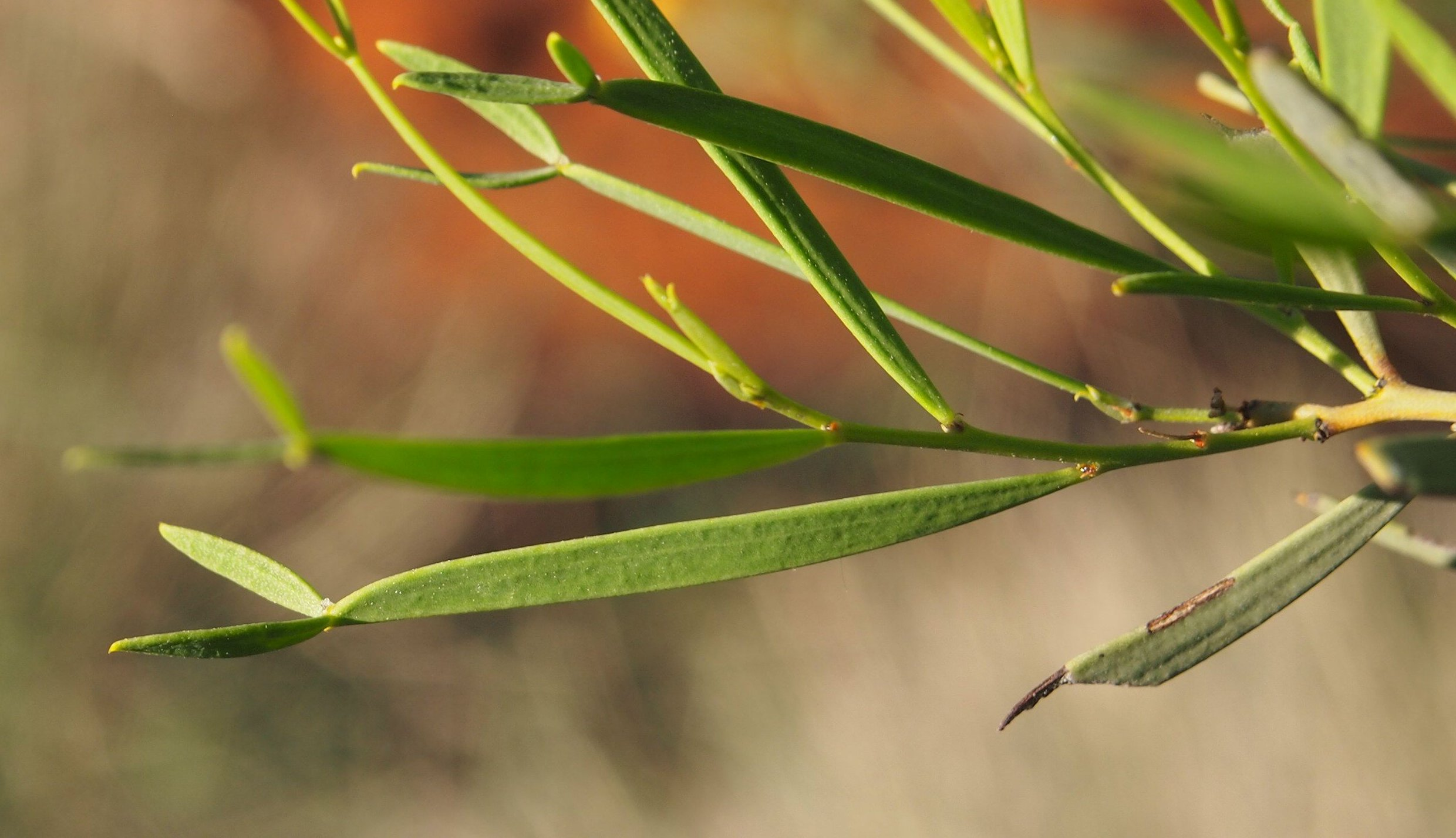 Senna artemisioides ssp petiolaris foliage